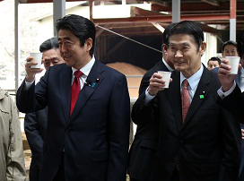 Hiroaki Hiruta, President of Hiruta Stock Farm Agricultural Union Corporation, treated Shinzō Abe, Prime Minister, and Masahiro Imamura, Minister for Reconstruction, to milks at Hiruta Stock Farm in Naraha Town, Futaba District, Fukushima Prefecture on April 8, 2017.